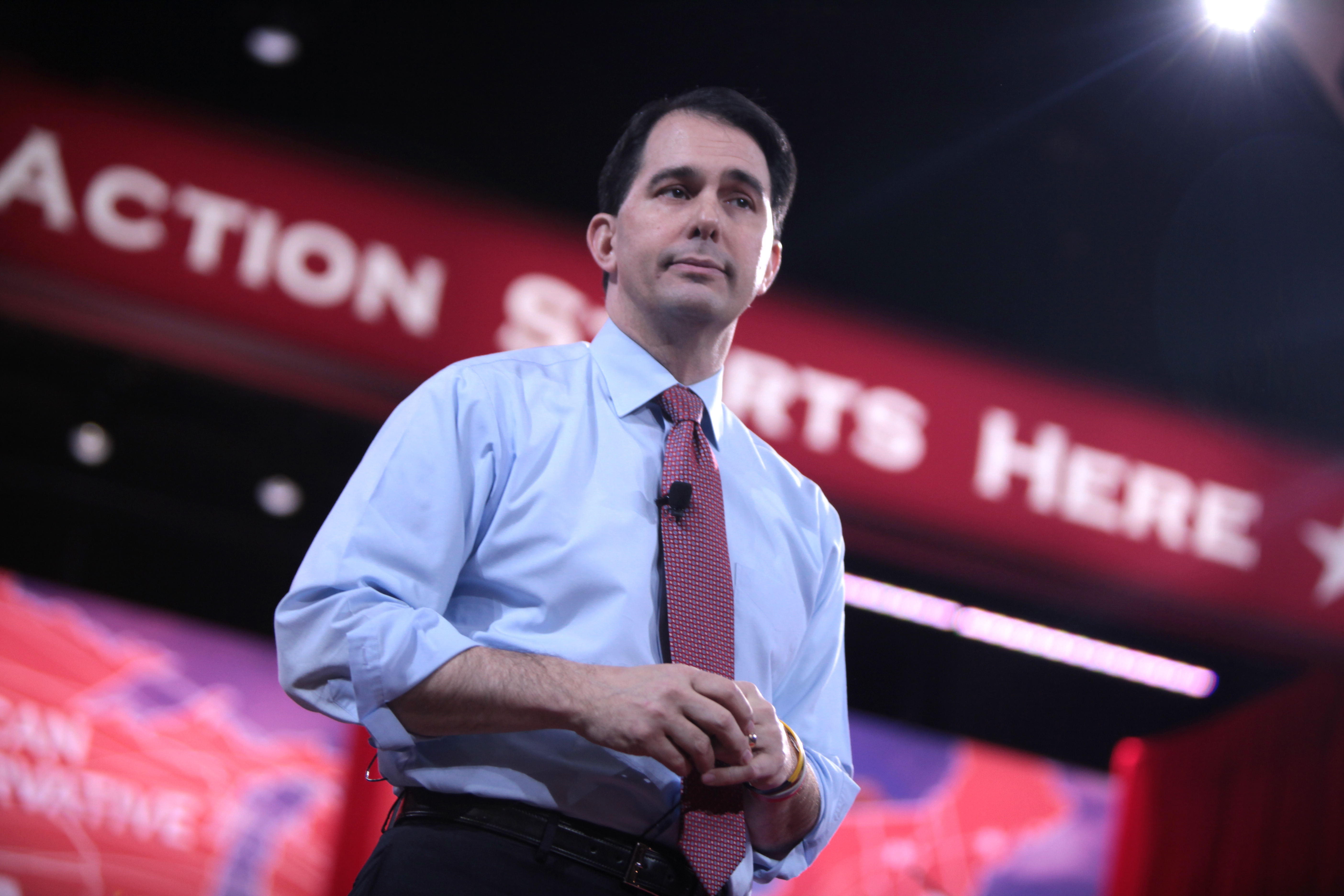 Scott Walker speaking at CPAC 2015 in Washington, DC.